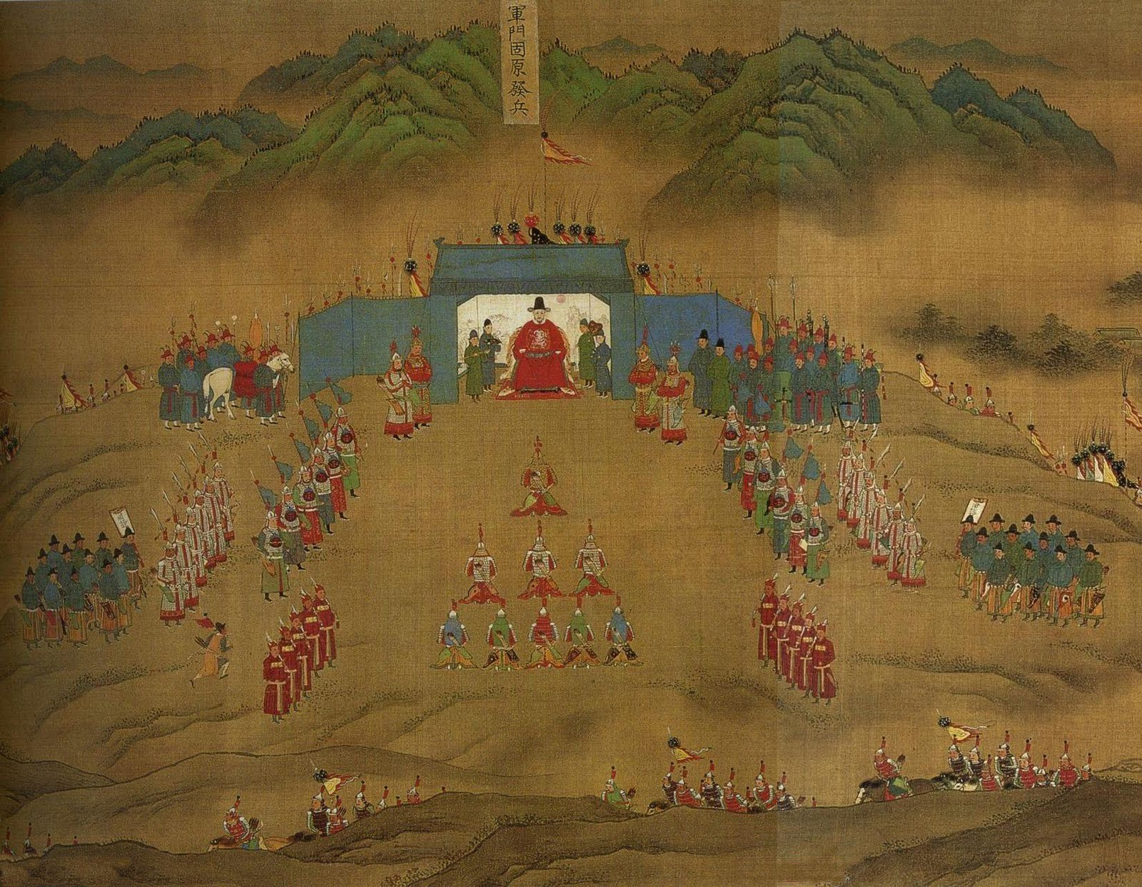 In 1575, a governor is sending the army from Guyuan to Taozhou. (A segment of "ping fan de-sheng tu" 平番得胜图)